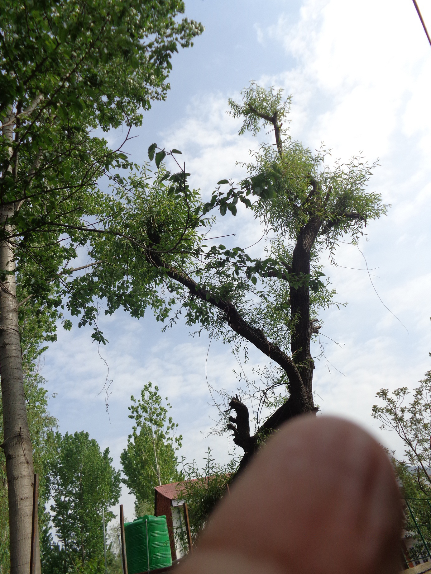 a willow tree